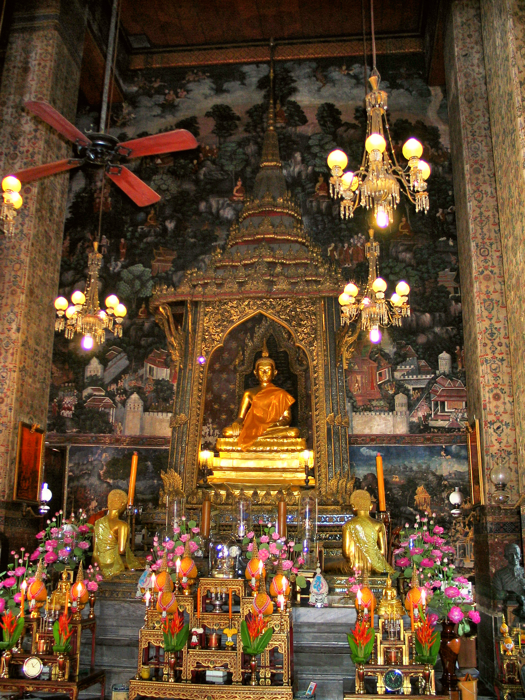 Inside Phra Wihan of Wat Somanat Wihan, Pom Prap Sattru Phai district, Bangkok, Thailand